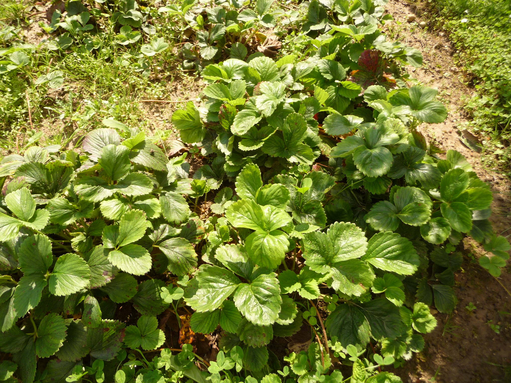 Fragaria, Fryšták